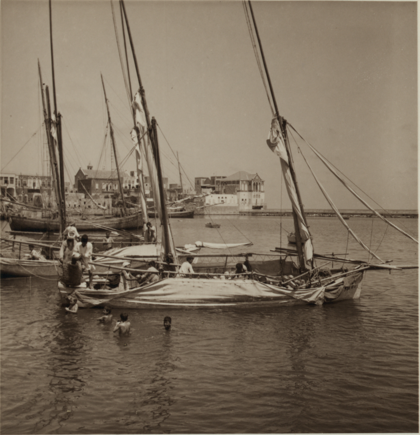 "July 7. Tyre. Unloading melons from sailing boat" Photographs taken by John D. Whiting, a member of the American Colony in Jerusalem, during his trips around the Middle East region from June 30 to Dec. 31, 1938.